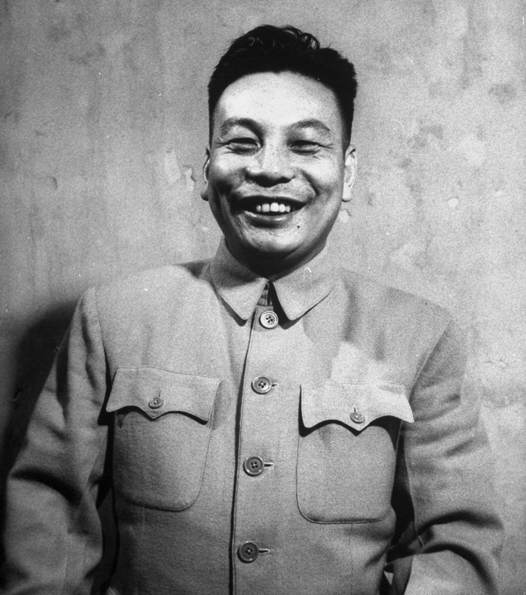 (Original text description) Portrait of Chiang Ching-Kuo.